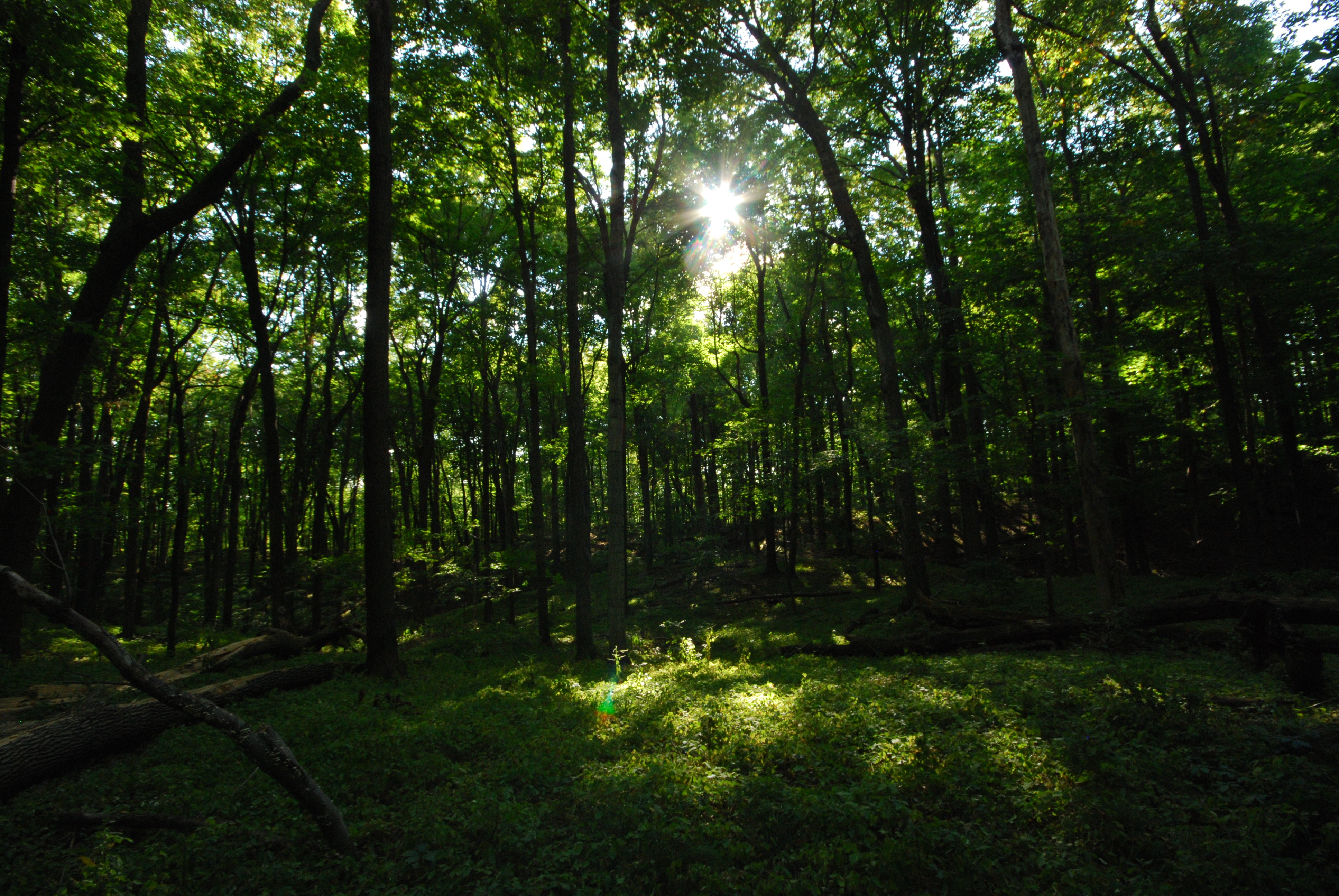 Cedarburg Beech Forest Wisconsin State Natural Area #61 Ozaukee County